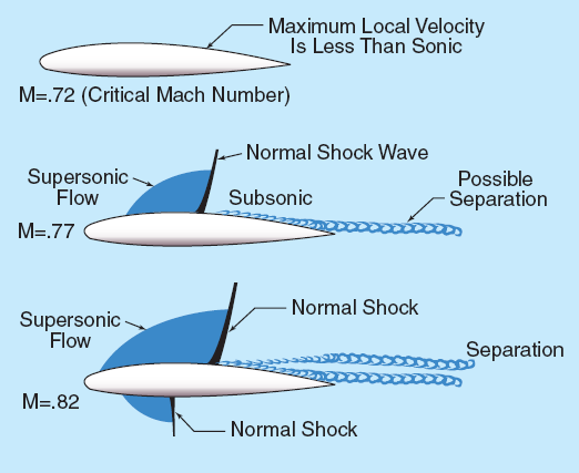 High speed airplanes designed for subsonic flight are limited to some Mach number below the speed of sound to avoid the formation of shock waves that begin to develop as the airplane nears Mach 1.0. These shock waves (and the adverse effects associated with them) can occur when the airplane speed is substantially below Mach 1.0. The Mach speed at which some portion of the airflow over the wing first equals Mach 1.0 is termed the critical Mach number (MACHCRIT).. This is also the speed at which a shock wave first appears on the airplane. There is no particular problem associated with the acceleration of the airflow up to the point where Mach 1.0 is encountered; however, a shock wave is formed at the point where the airflow suddenly returns to subsonic flow. This shock wave becomes more severe and moves aft on the wing as speed of the wing is increased, and eventually flow separation occurs behind the well-developed shock wave. [Figure 15-9]